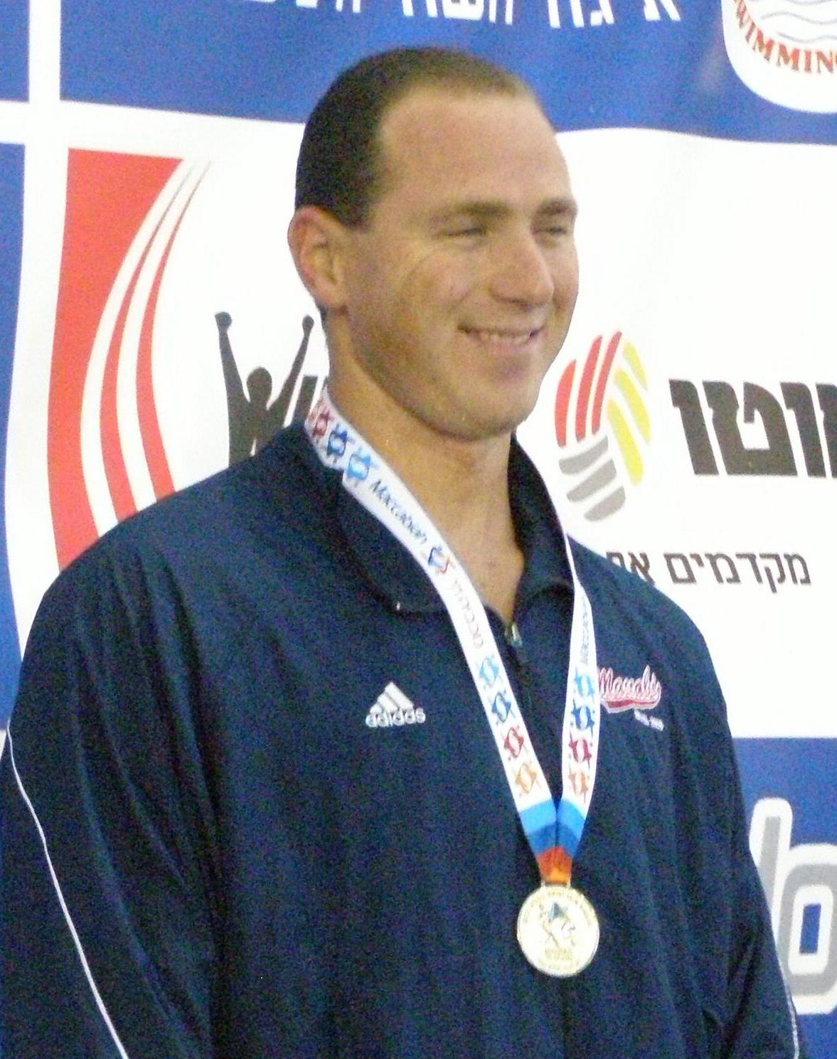 Jason Lezak at the Maccabiah Games 07/2009